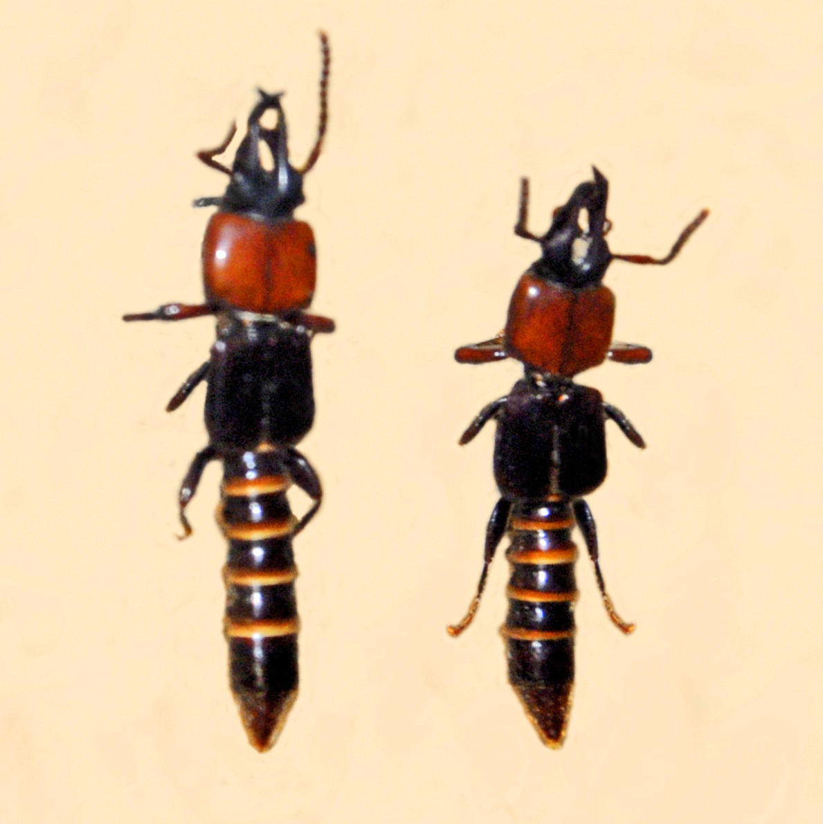 Leptochirus javanus from Sumatra. Museum specimen